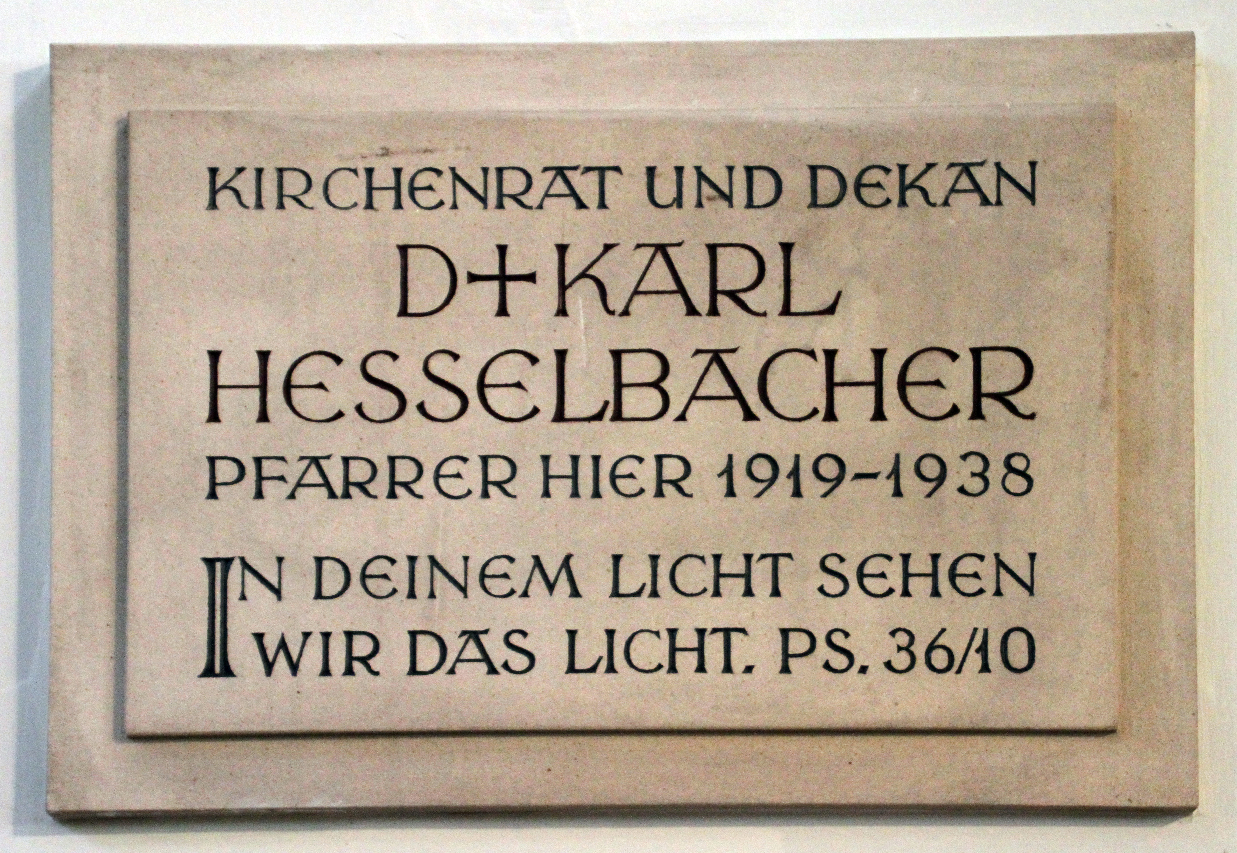 Evangelische Stadtkirche in Baden-Baden, interior decoration